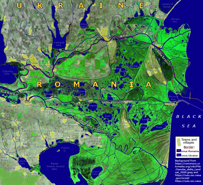 The Danube Delta arms, cities and borders (background: part of the Landsat satellite photo File:Danube delta Landsat 2000.jpeg uploaded by User:Balcer~commonswiki [1]) from Other details since the official maps of Ukraine and Romania. Names in parentheses since Harta Principatelor Unite ale României from Pr. George Filipescu-Dubău & Anton Parteni-Antonin, Jassy 1865 and Principati di Moldavia e Vallachia, from G. Pittori, since Giovanni Antonio Rizzi Zannoni, 1786